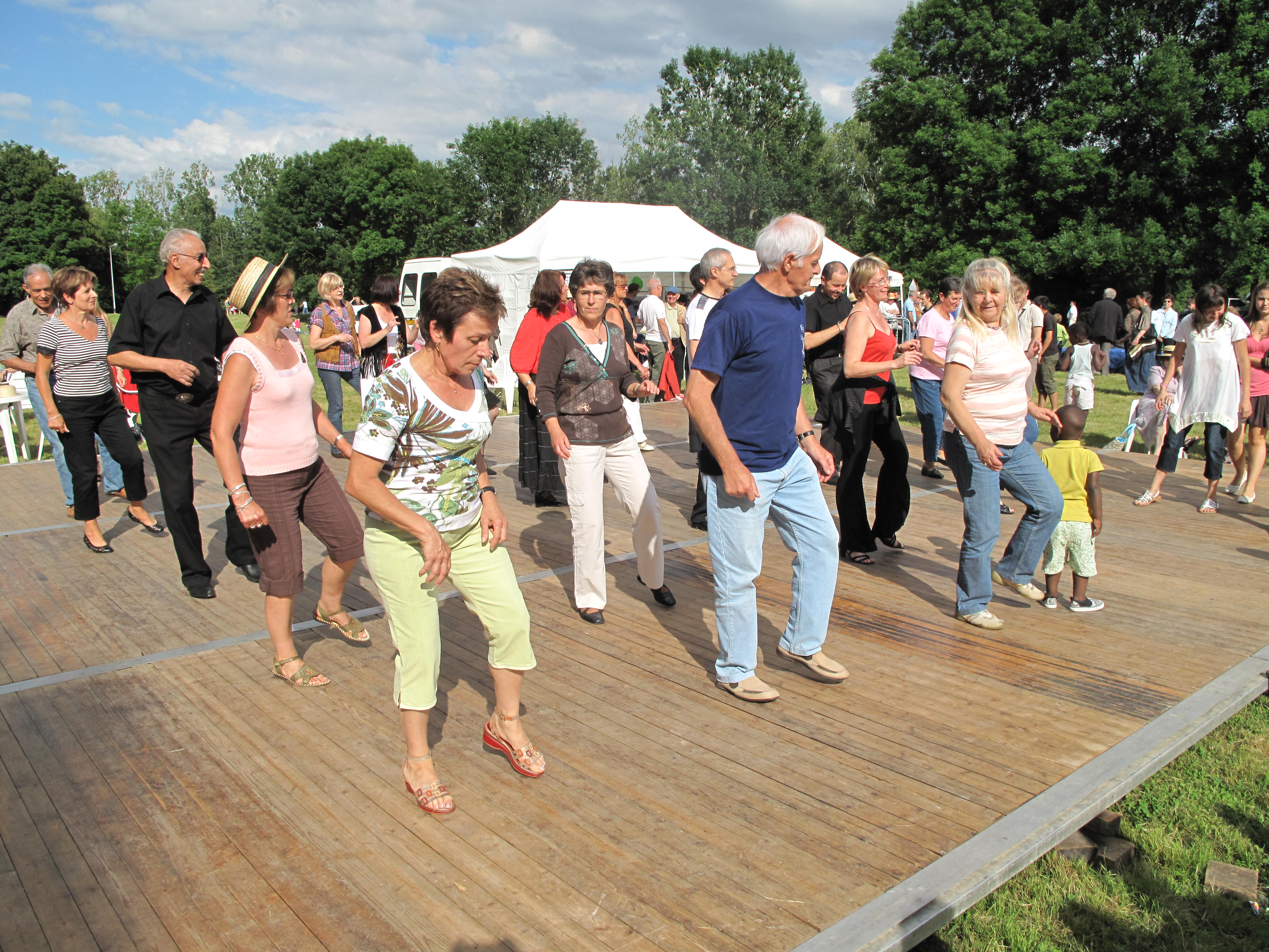 Madison dancers, position #1